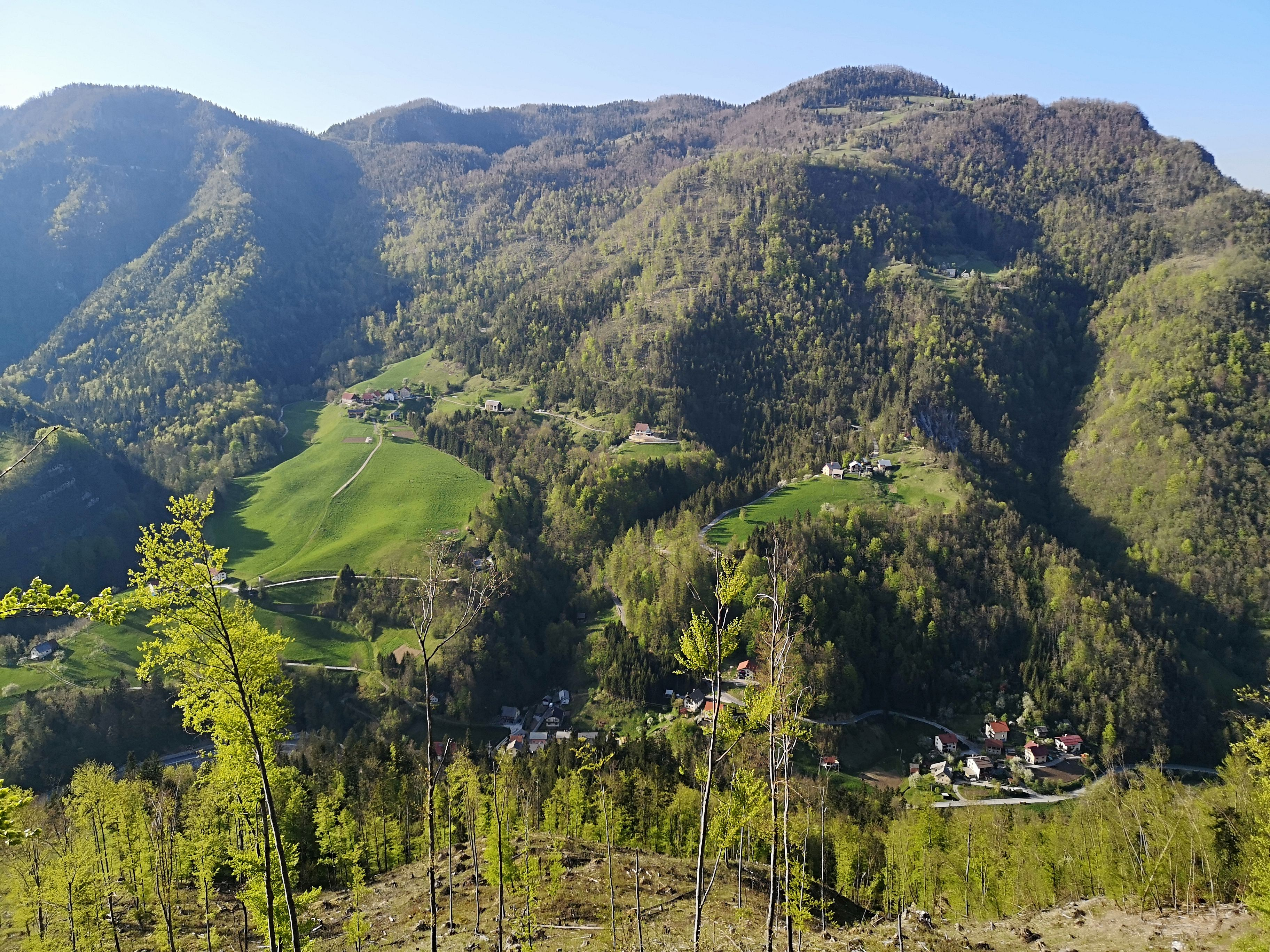 Spodnja Kanomlja, a village in northwestern Slovenia (Municipality of Idrija).